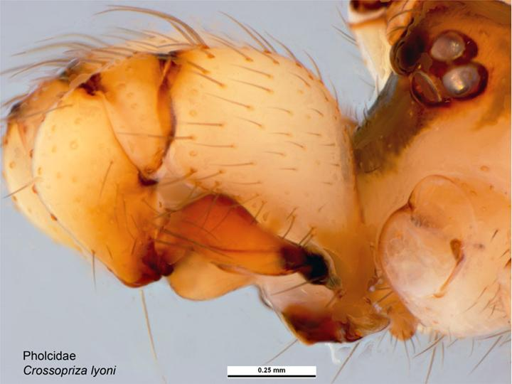 Crossopriza lyoni male pedipalps. (Site N01: Study Area 3: Western Australia: Barrow Island 1 May 2007 S. Callan K. Edwards Det. J. Waldock 2007)